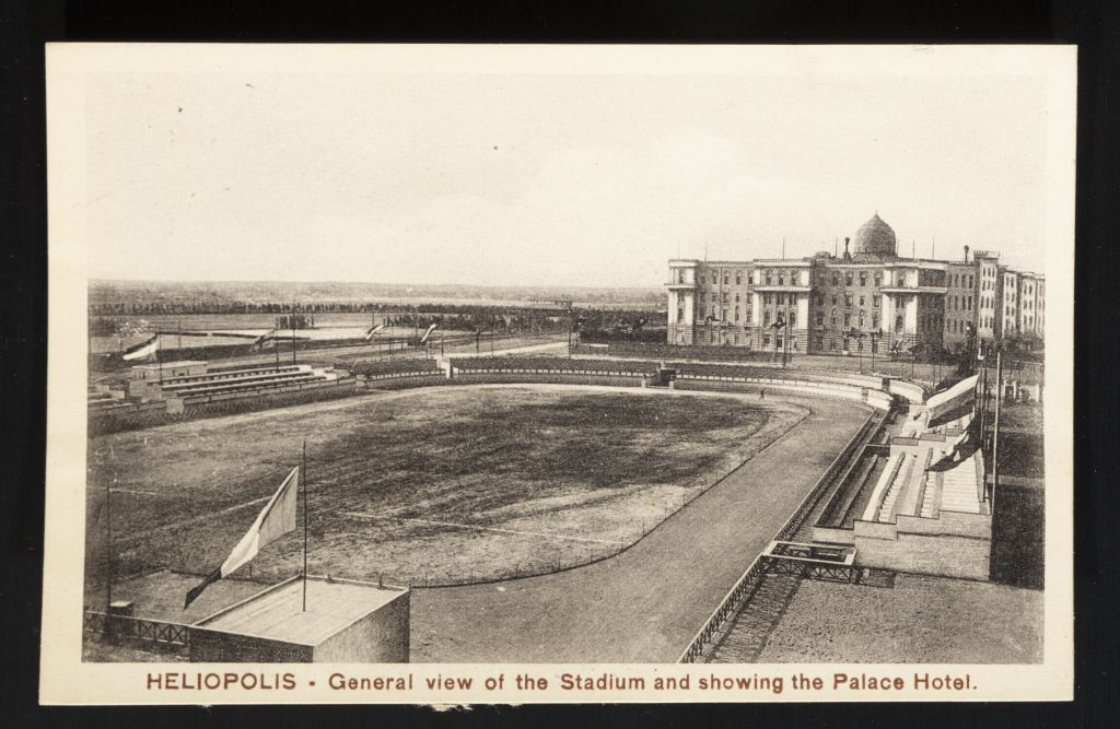 Stadium in foreground, Palace Hotel in background